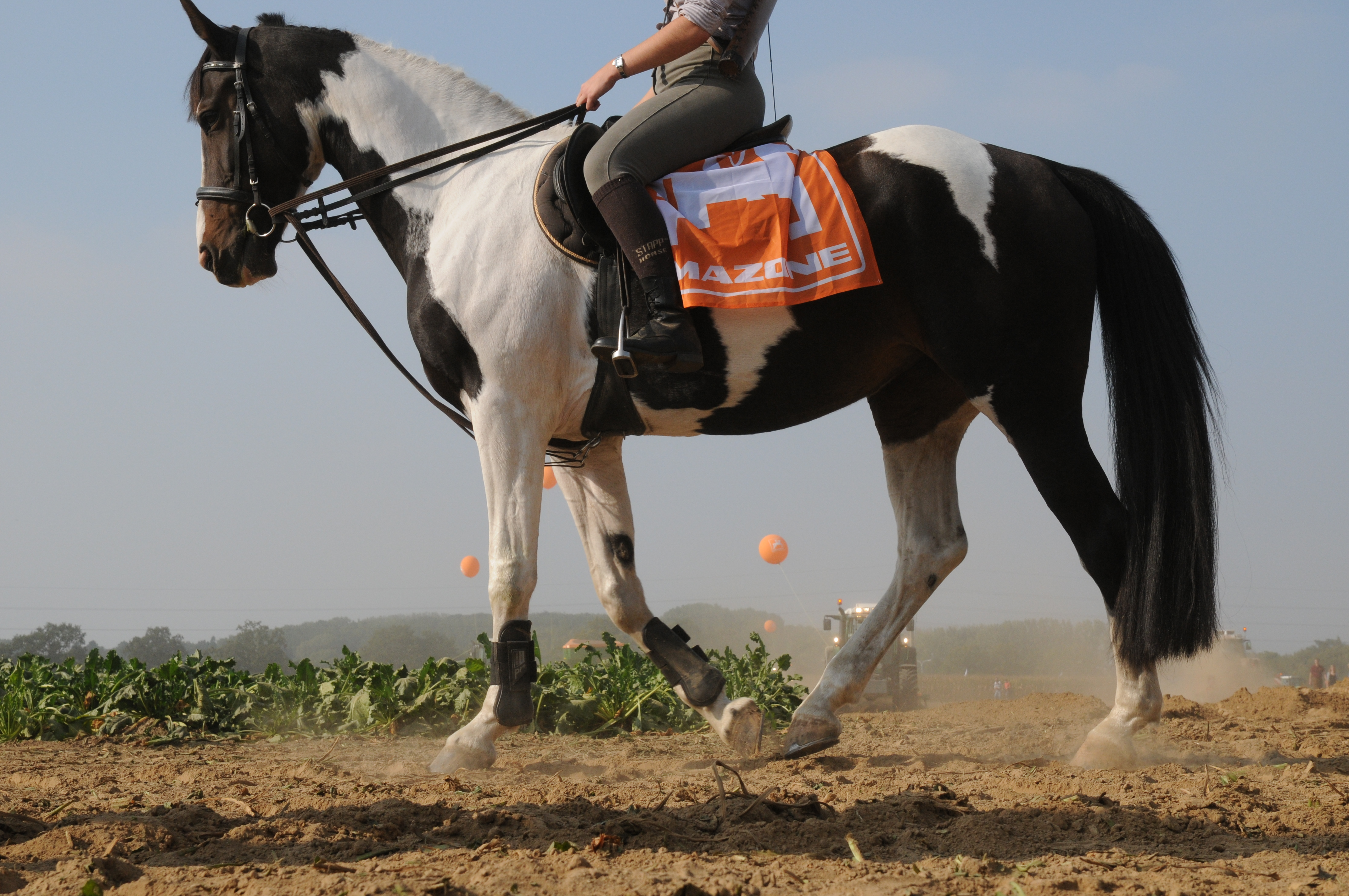 Amazone "ad horse" at Werktuigendagen 2009